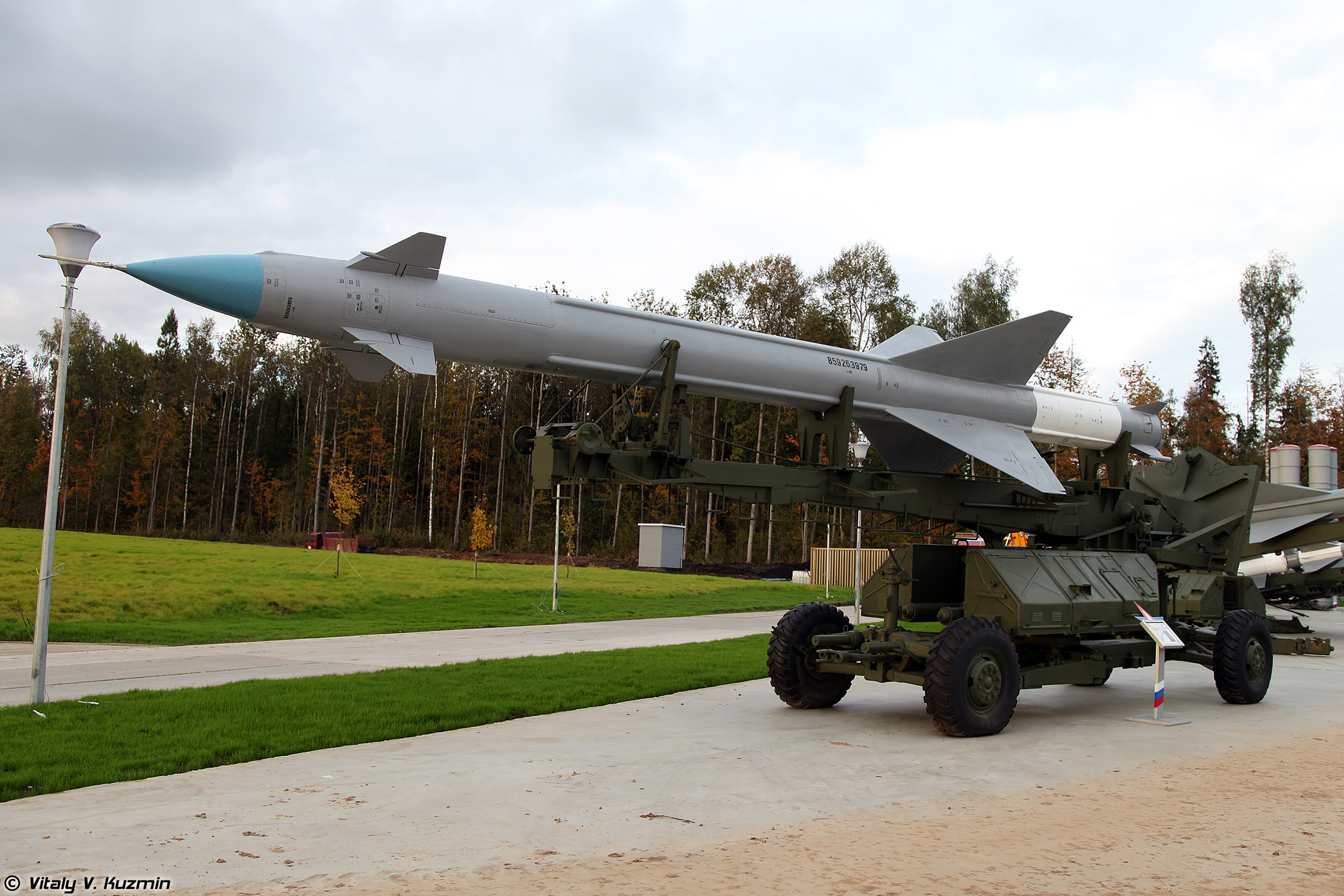 S-25 system with V-300 SAM - Park Patriot